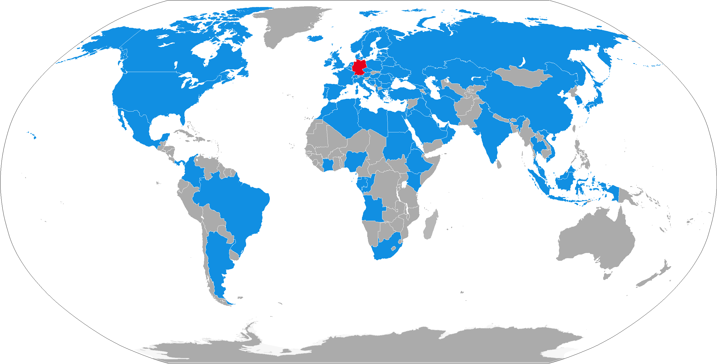 Lufthansa destinations